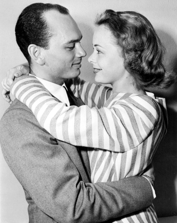 Yul Brynner & his wife Virginia Gilmore - publicity still (original image cropped : see source)